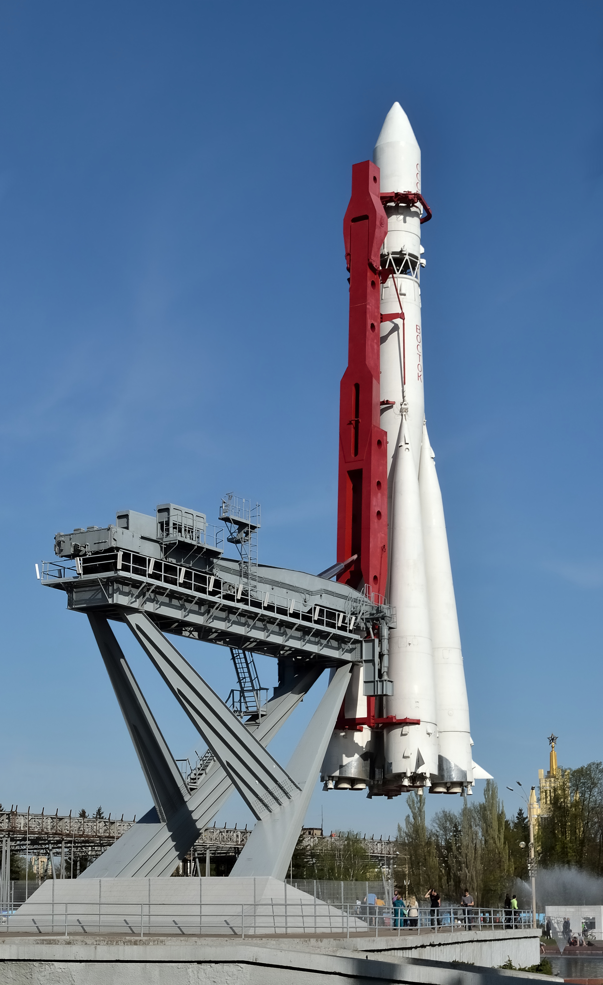 Moscow. VDNKh (the Exhibition of Achievements of the National Economy). The full-scale model of the Vostok 8K72K carrier rocket installed before Pavilion No. 32 Cosmos. A photo from the user collection VDNKh.